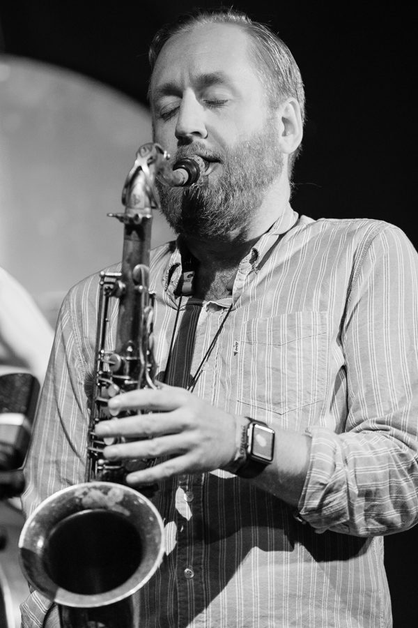 Jonas Kullhammar in a concert with Hegge at Argus. The concert was part of Kongsberg Jazzfestival and took place on 05. July 2019 in Kongsberg. Lineup:Jonas Kullhammar (saxophone)Martin Myhre Olsen (saxophone)Vigleik Storaas (piano)Håkon Mjåset Johansen (drums)Bjørn Marius Hegge (double bass)